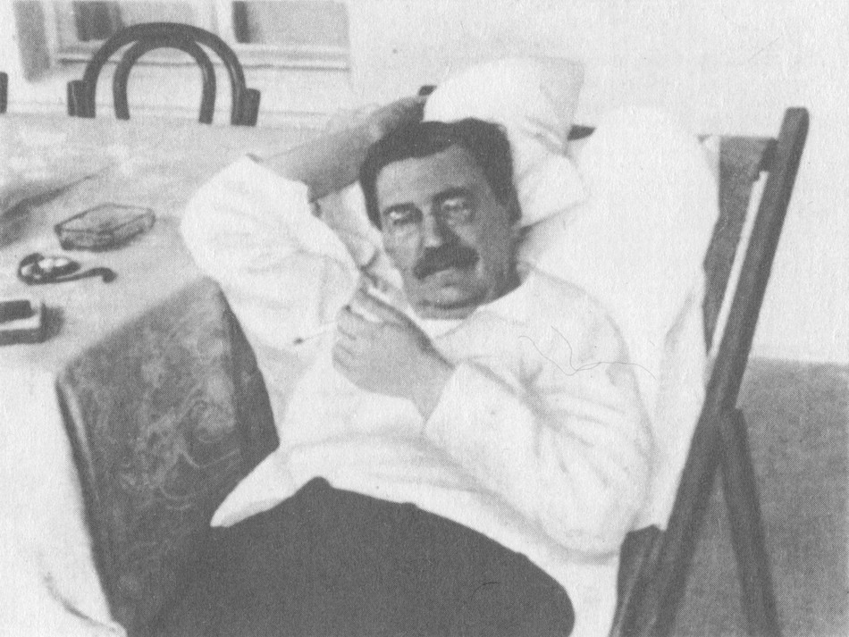 Russian revolutionary Vyacheslav Menzhinsky (1874—1934)